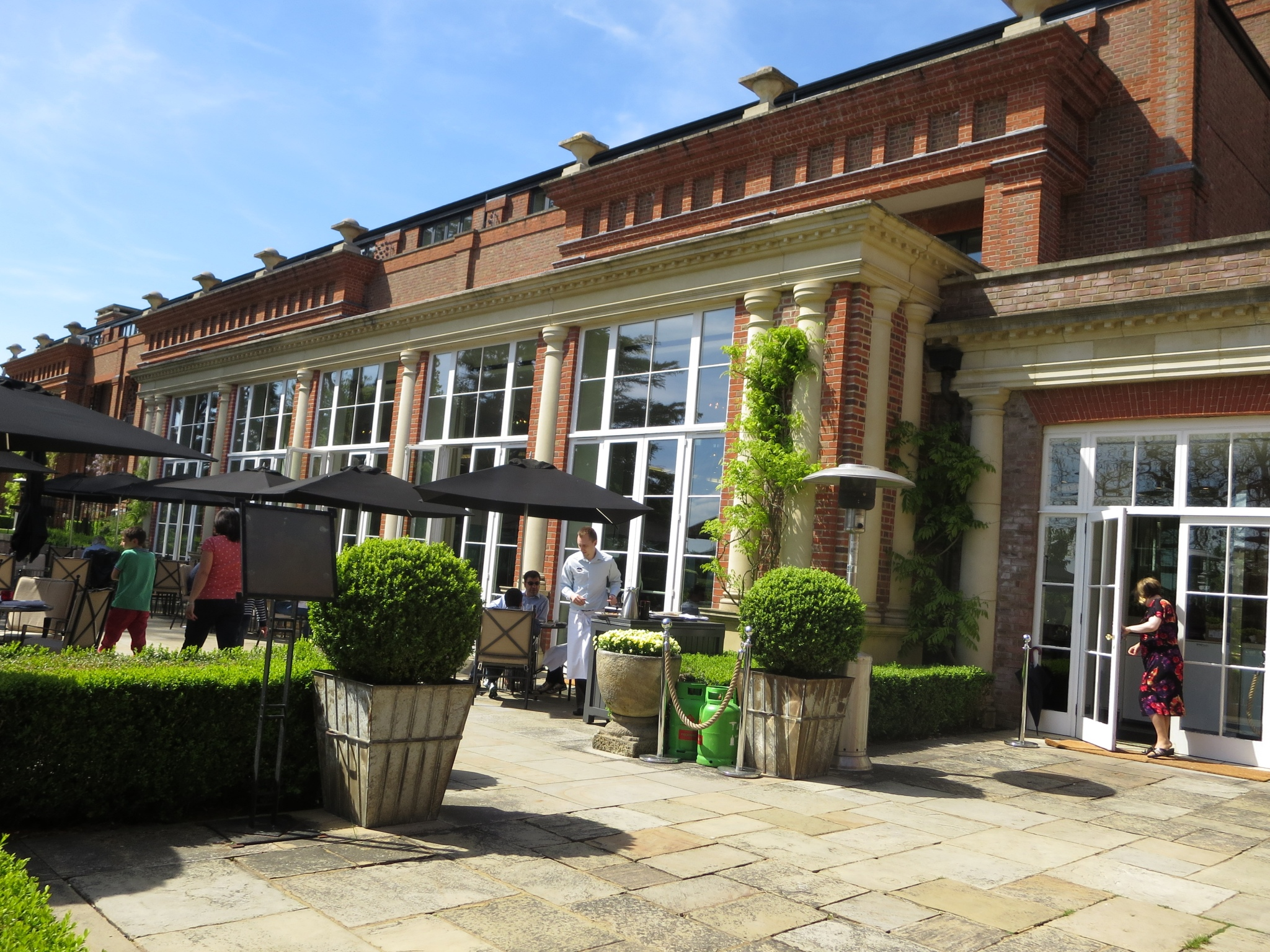 THE GROVE | Chandler's Cross, Hertfordshire